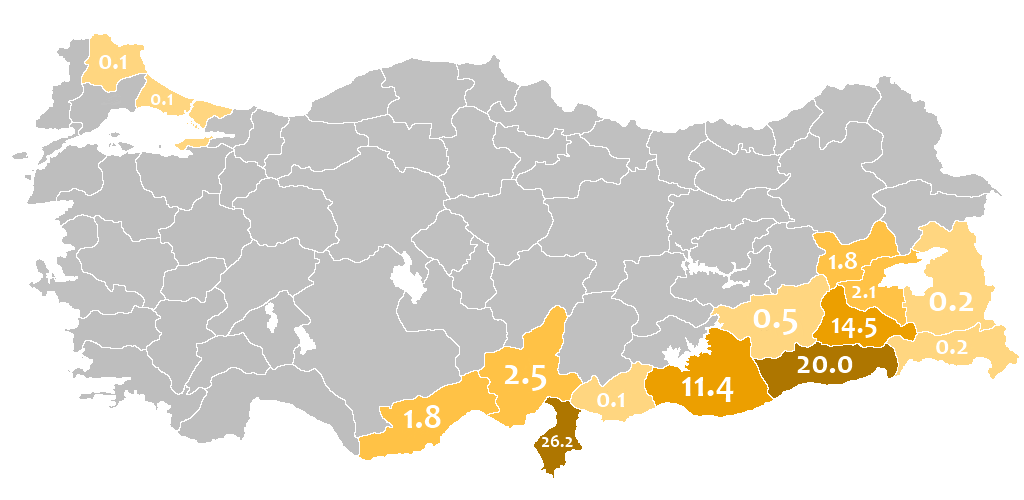 This map shows the distribution of people who spoke Arabic in 1965's Turkey.